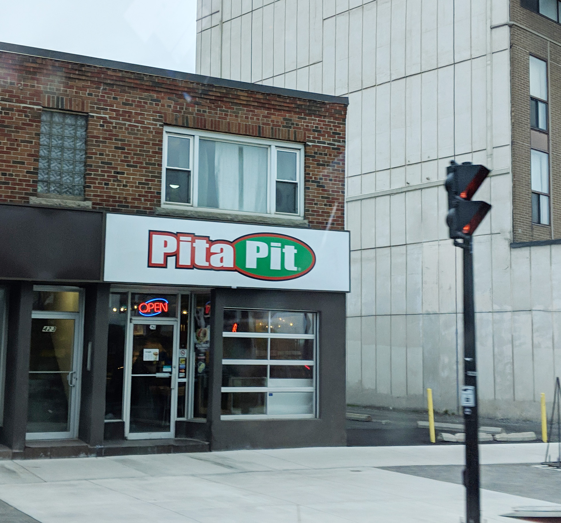 The first-ever Pita Pit restaurant, located on Princess Street beside Princess Towers in Kingston, ON.